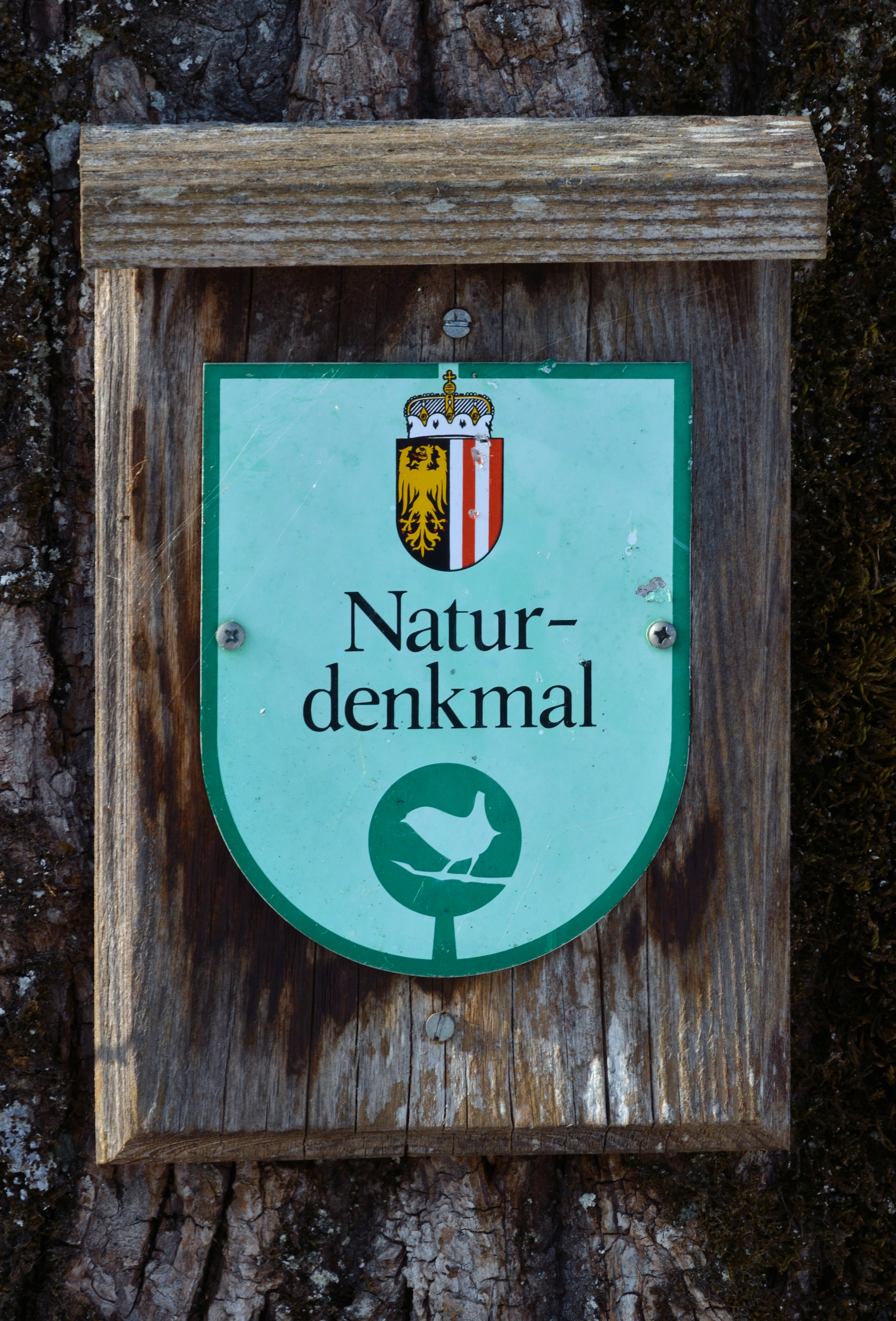 The official natural monument sign as used in Upper Austria.